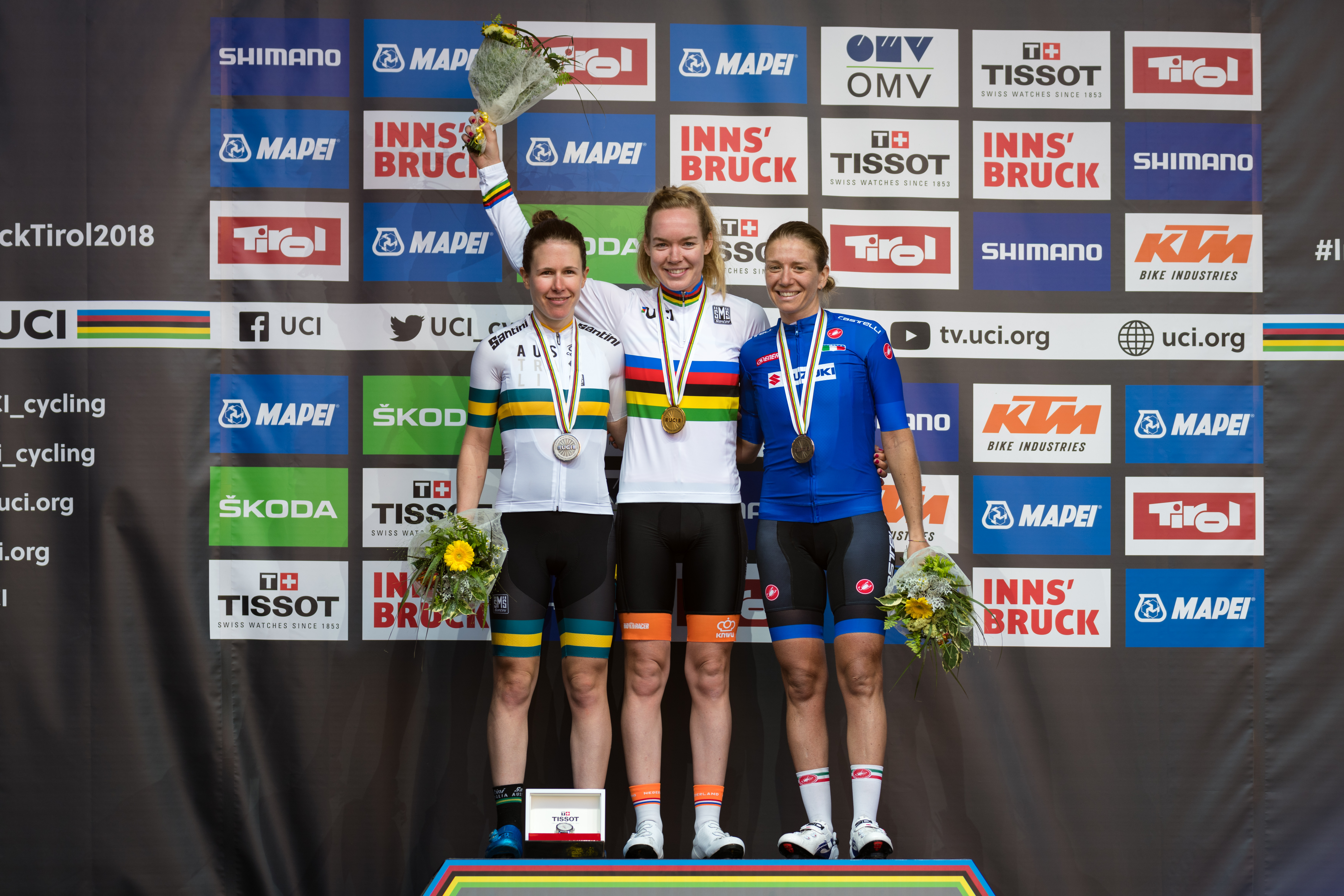 2018 UCI Road World Championships Innsbruck/Tirol Women Elite Road Race. Picture shows: Award Ceremony with Amanda Spratt of Australia, winner Anna van der Breggen of the Netherlands and Tatiana Guderzo of Italy